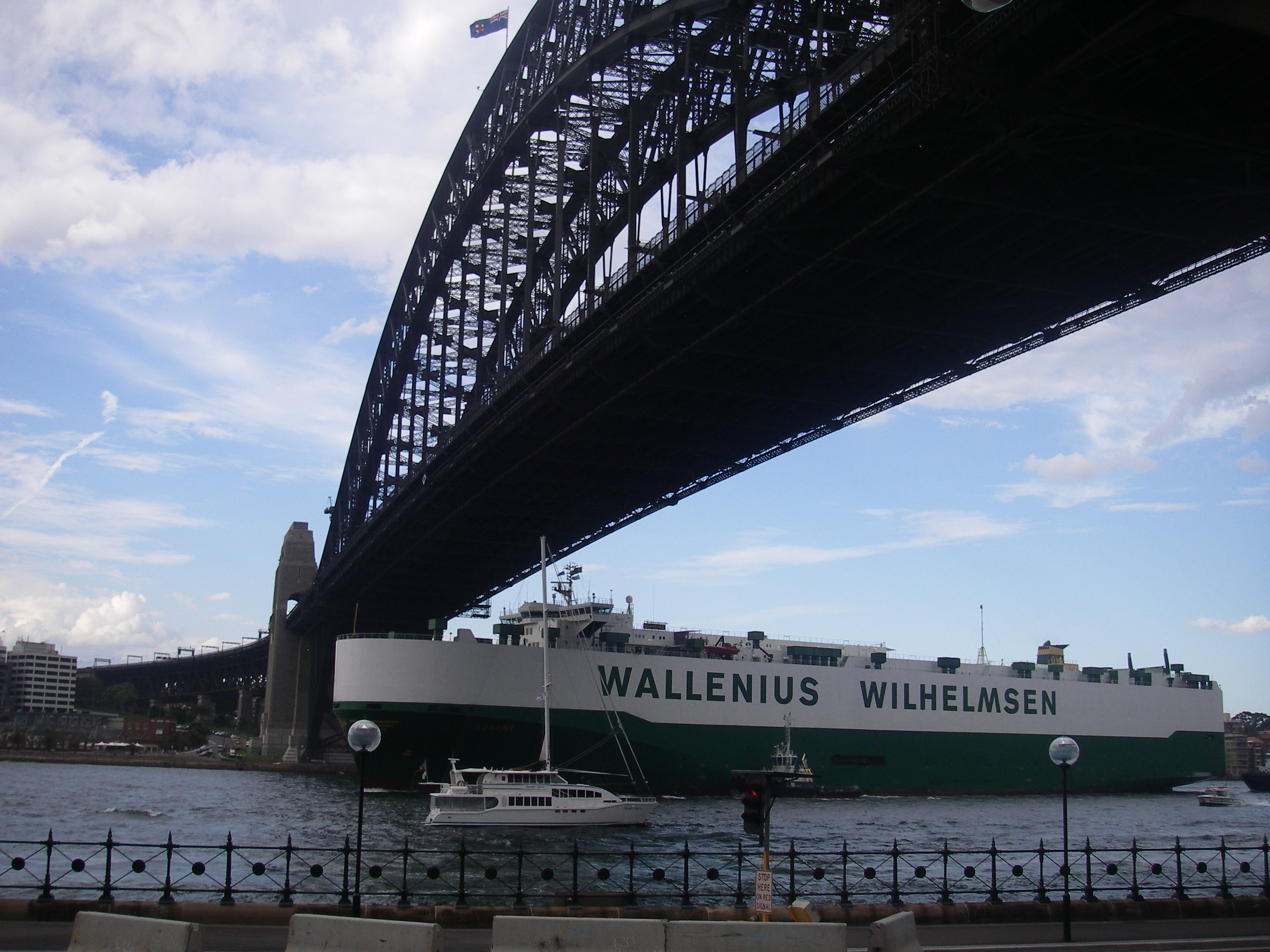 Swedish car carrier Boheme in Sydney For ship details and history see her category:IMO 9176565